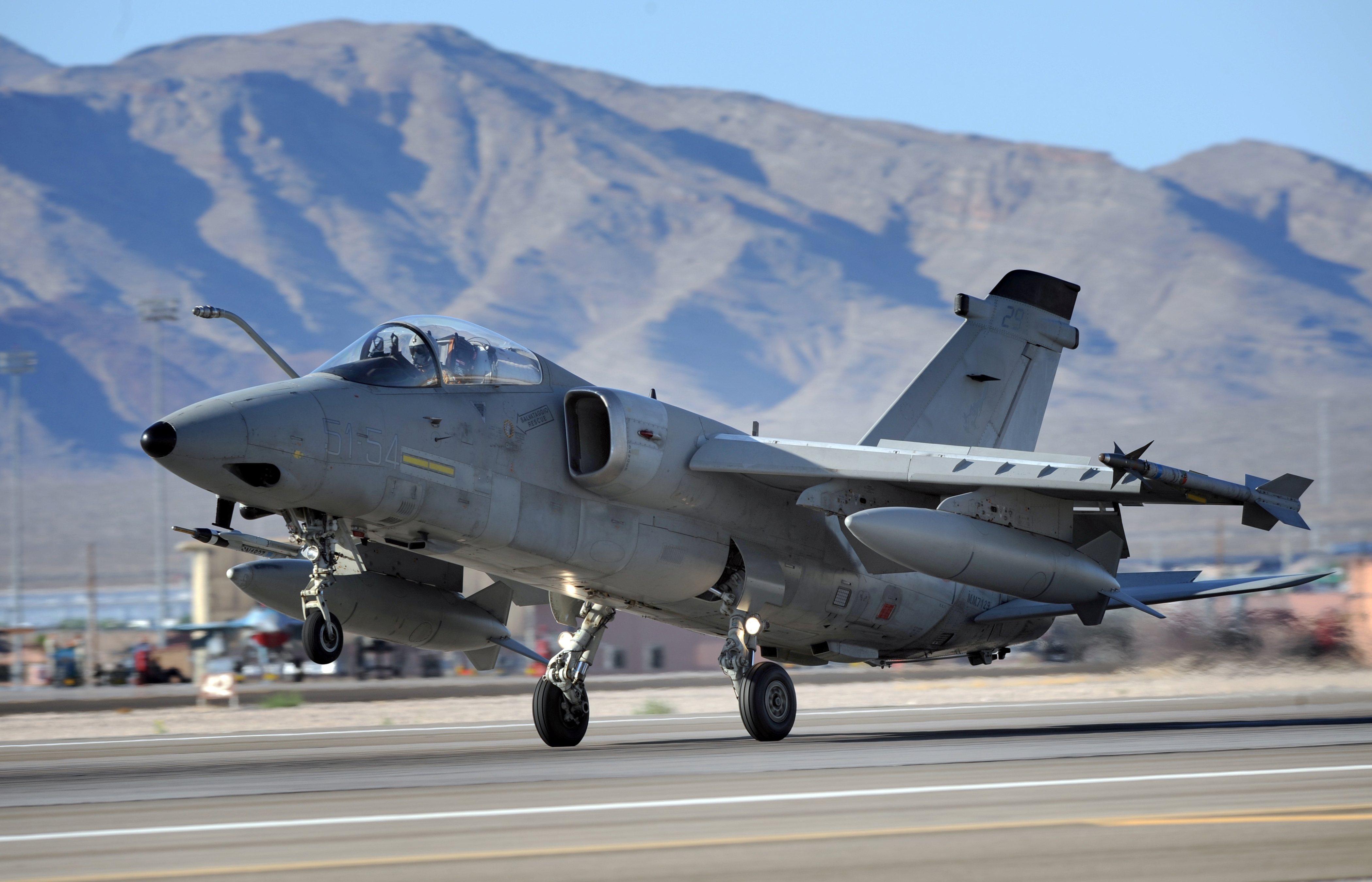 An Italian air force AMX Fighter aircraft lands at Nellis Air Force Base, Nev., following a Red Flag 09-5 training mission Aug. 26, 2009.